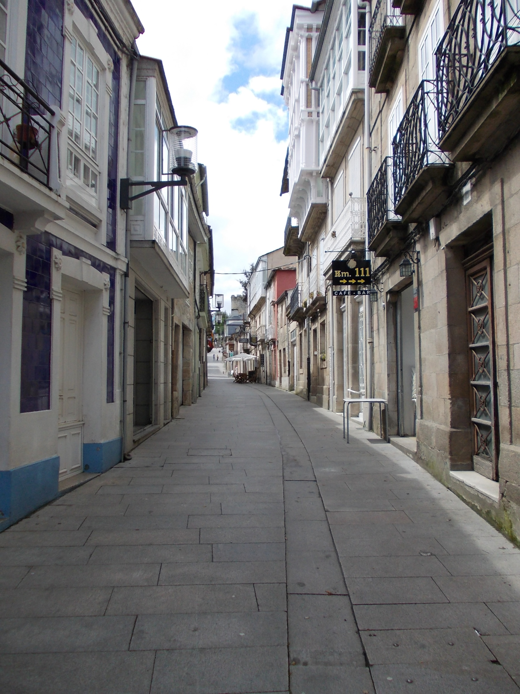 camino frances - Sarria